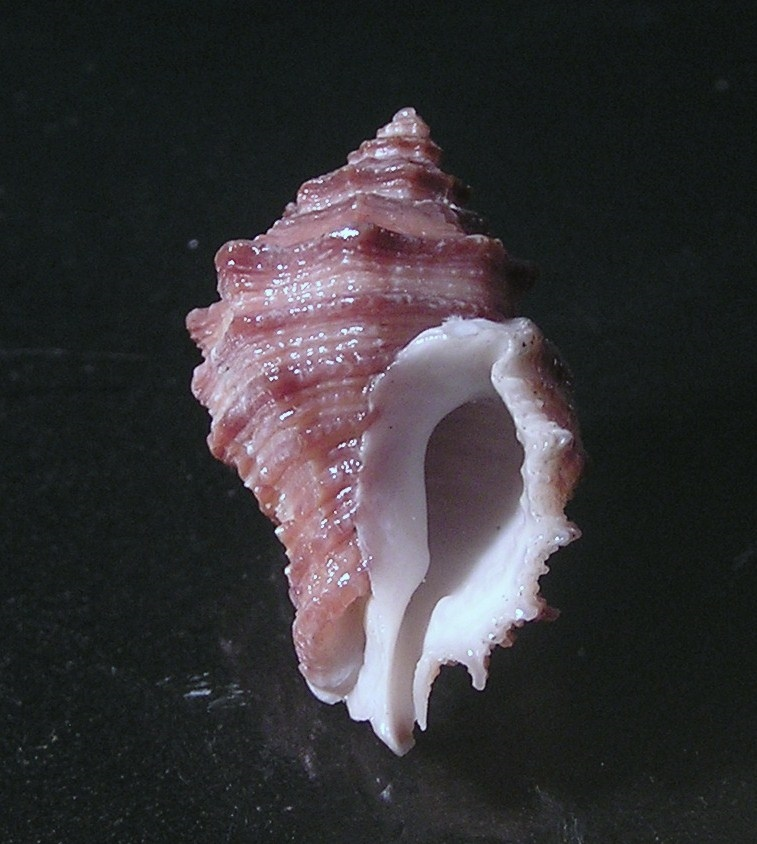 Ergalatax crassulnata Hedley, 1915; a murex snail from the family Muricidae; Australia